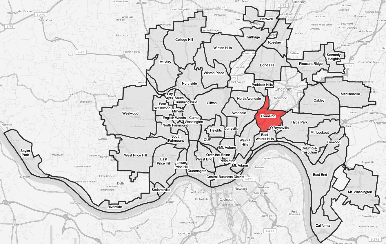 A map of the neighborhood of Evanston within Cincinnati, Ohio. Neighborhood lines are based on information from This street map is derived from a free map.